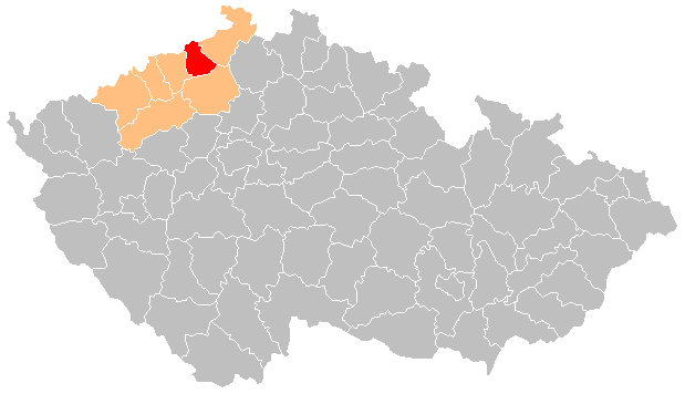 District of Ústí nad Labem